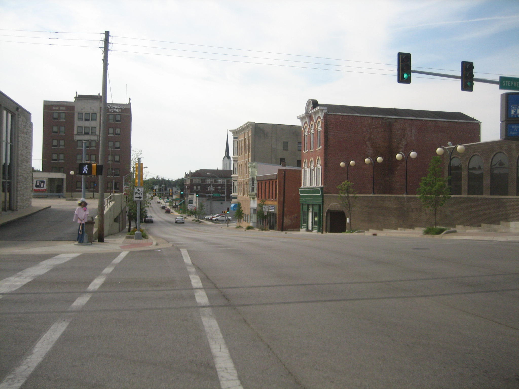 Downtown Freeport, Illinois, USA.